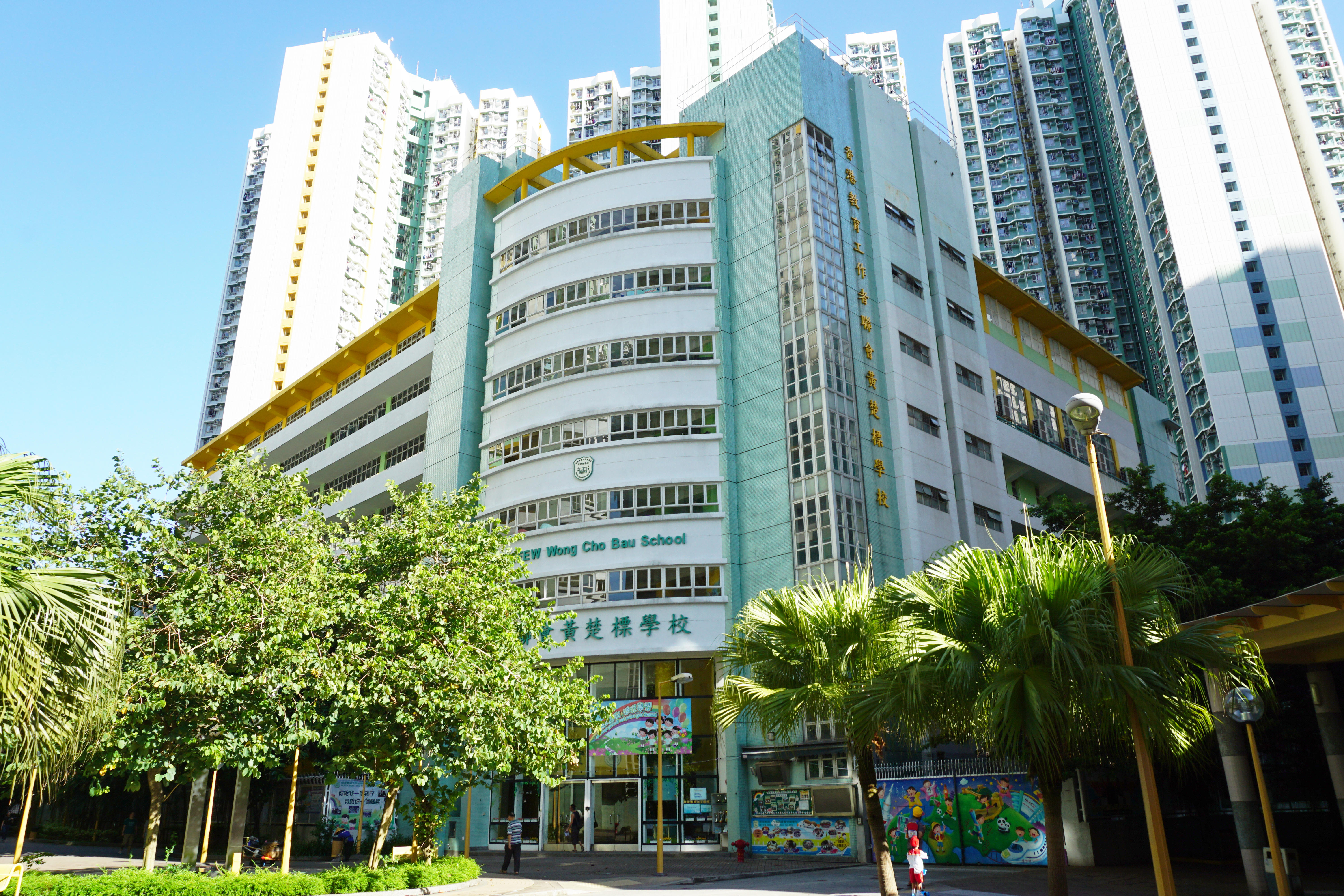 HKFEW Wong Cho Bau School in Tung Chung, Hong Kong.